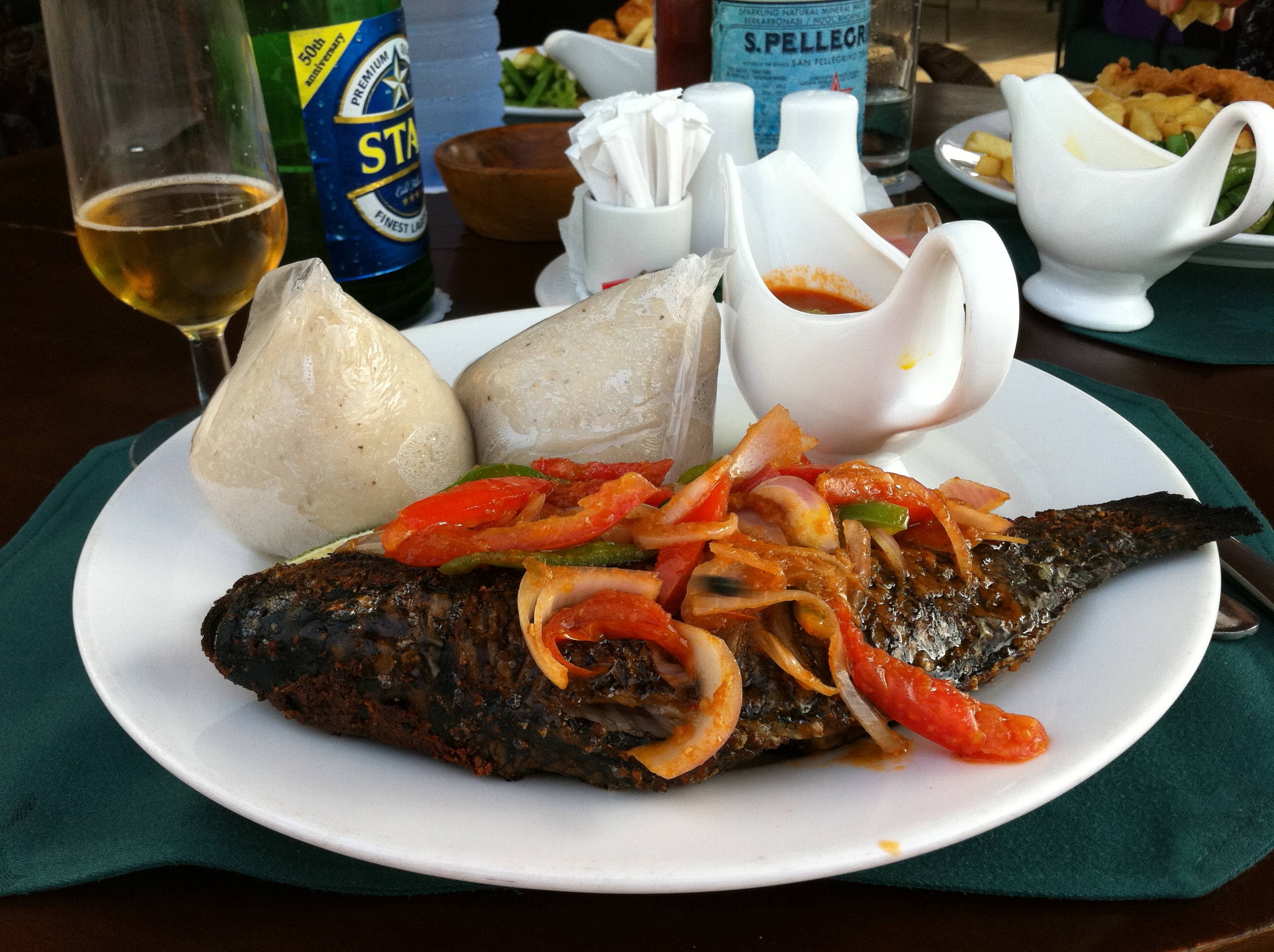 Dokonu & Grilled Tilapia (Akan cuisine). Banku is a kind of a corn meal mush that you use to eat the fish with your hands.